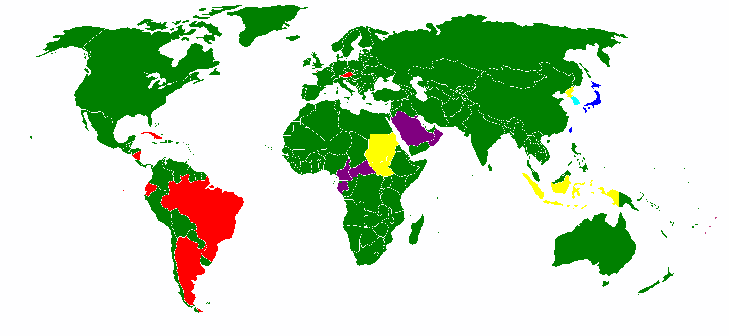 Voting Ages around the world